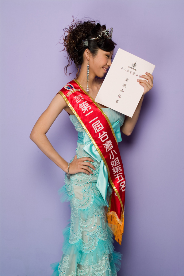 Chen-Yao Chu won the fifth place of Miss Taiwan 2006